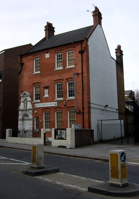 Theatro Technis, Crowndale Road A tiny but highly-acclaimed theatre and arts centre which also provides community services. It operatesa variety of theatre groups and takes a particular interest in European and international arts generally. The Theatre has a strong Greek Cypriot connection and runs an Advisory Service, an Old People's Luncheon Club and a library, all aimed at the local Greek community.